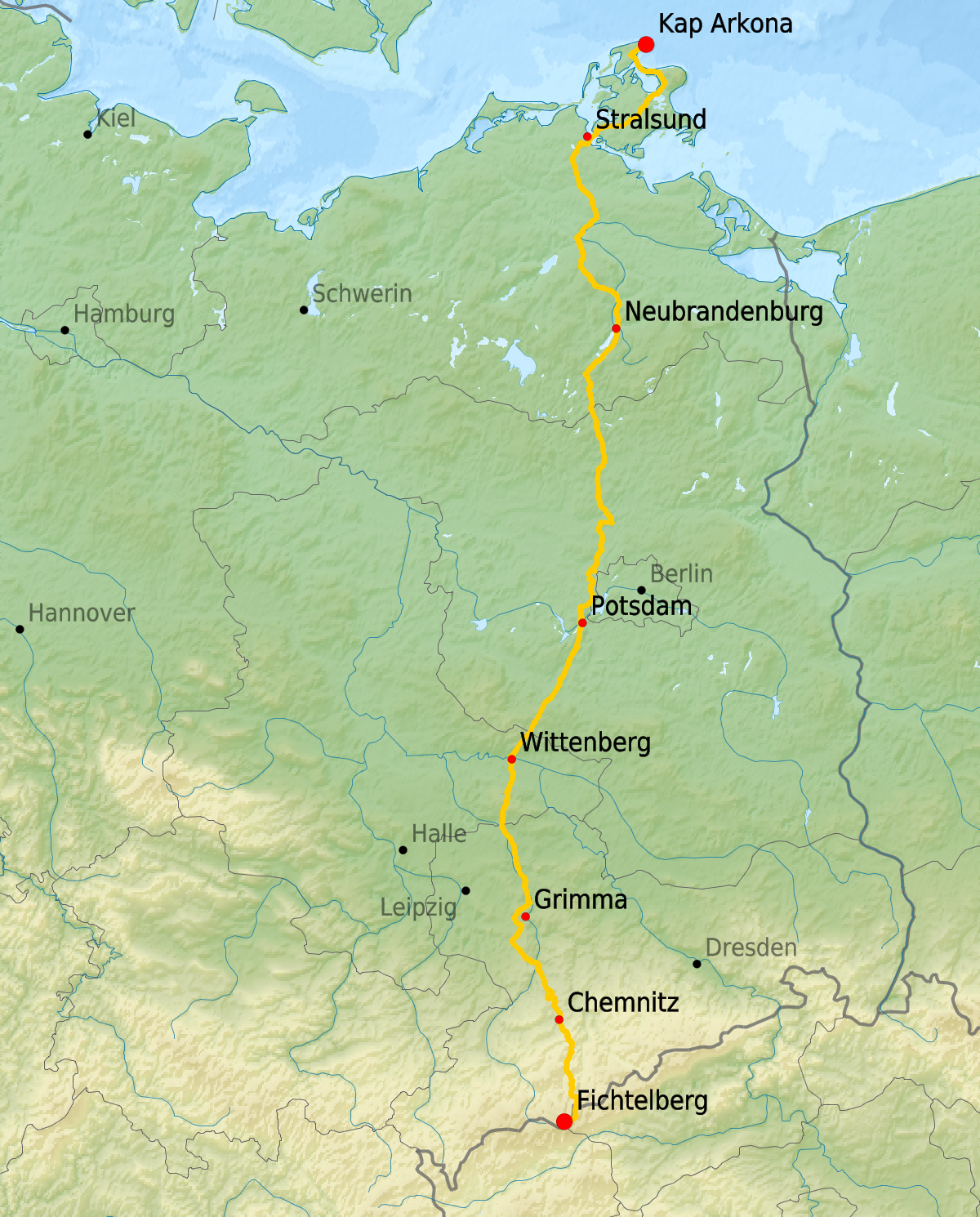 map of the route of the Fichkona bicycle marathon